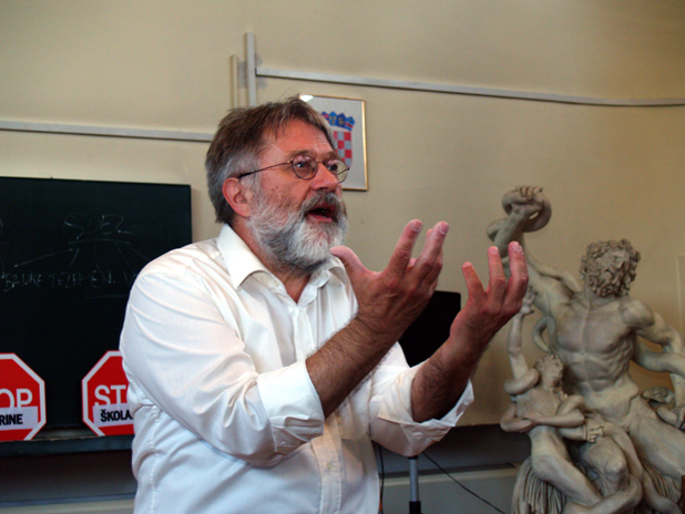 Rastko Močnik speaking on Subversive Festival